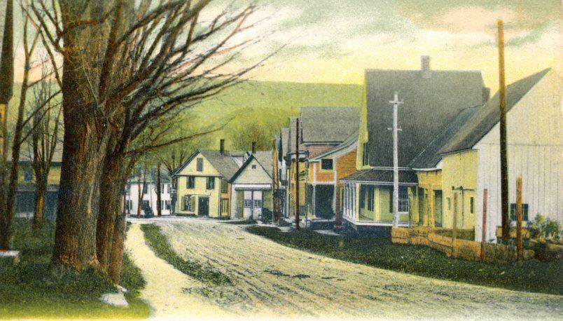 View of Jamaica Village, Vermont; from a c. 1907 postcard published by G. W. Morris, Portland, Maine.